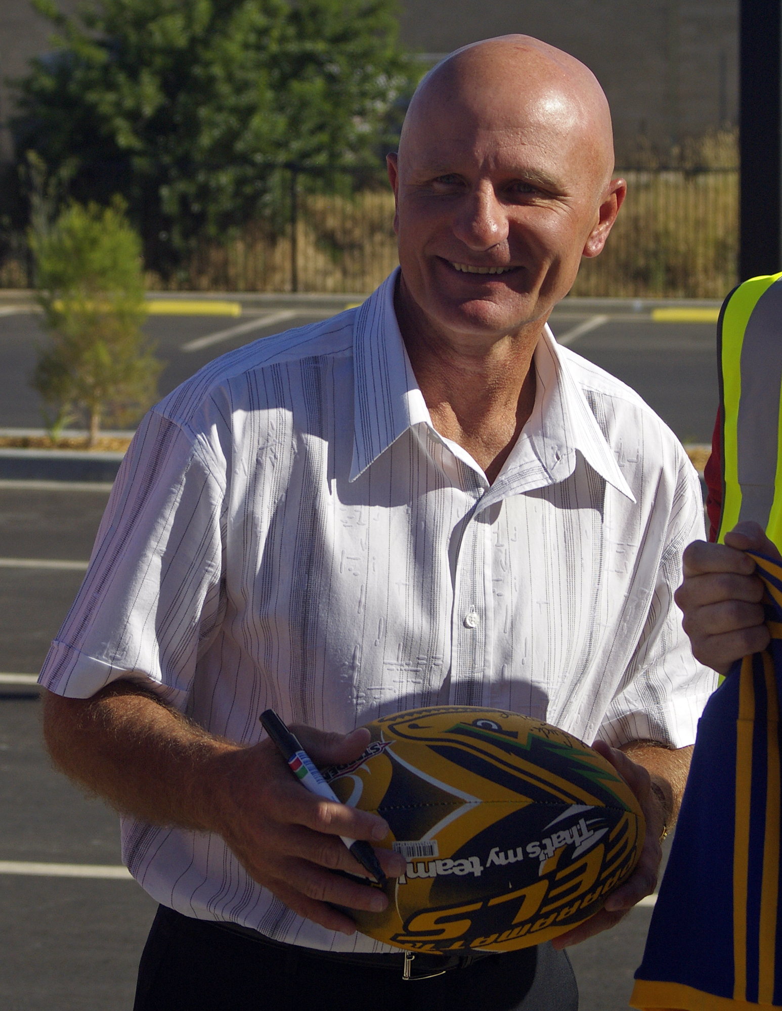 Peter Sterling at the official opening of the Bunnings Warehouse Wagga Wagga.